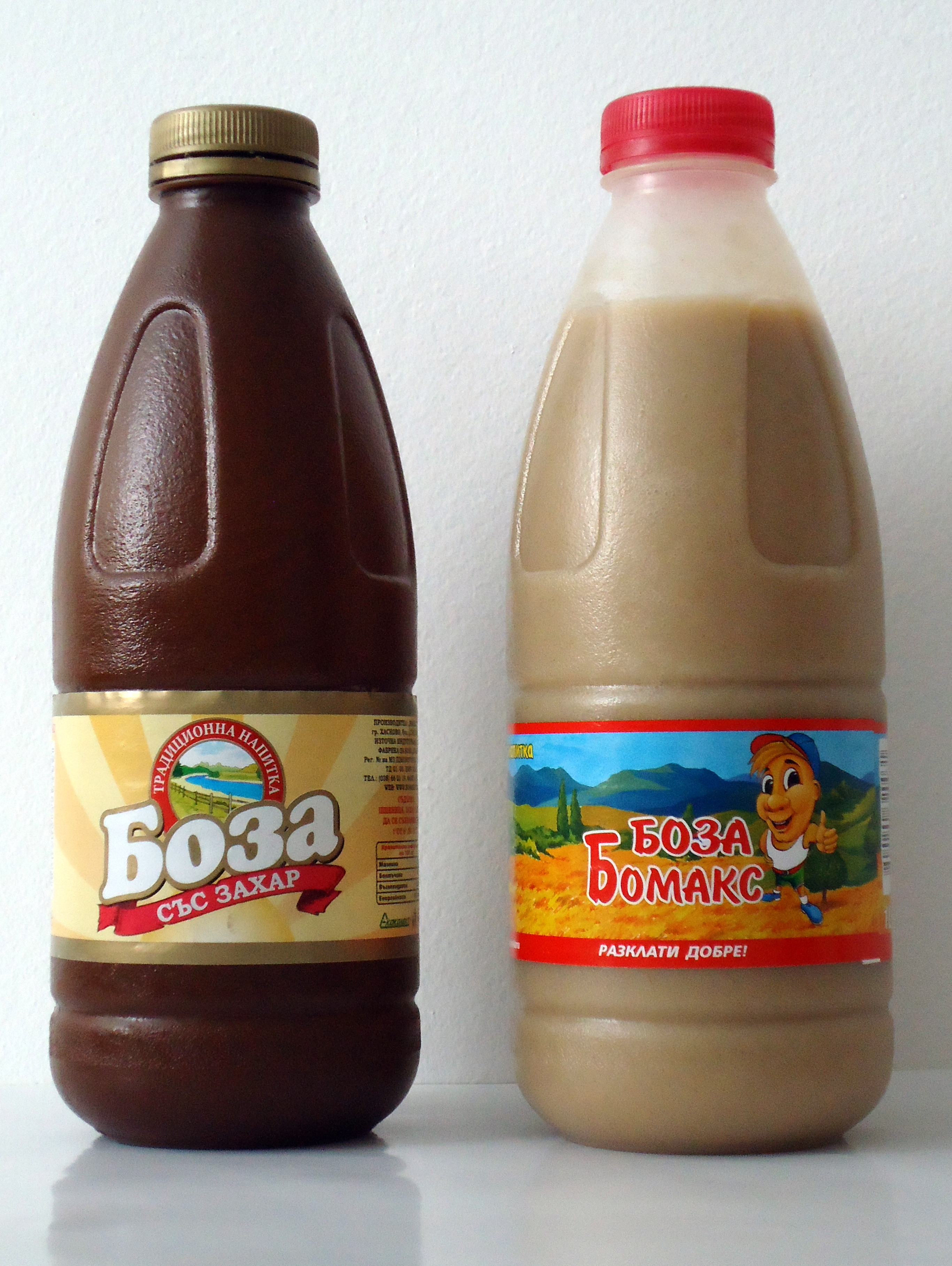 Boza BG